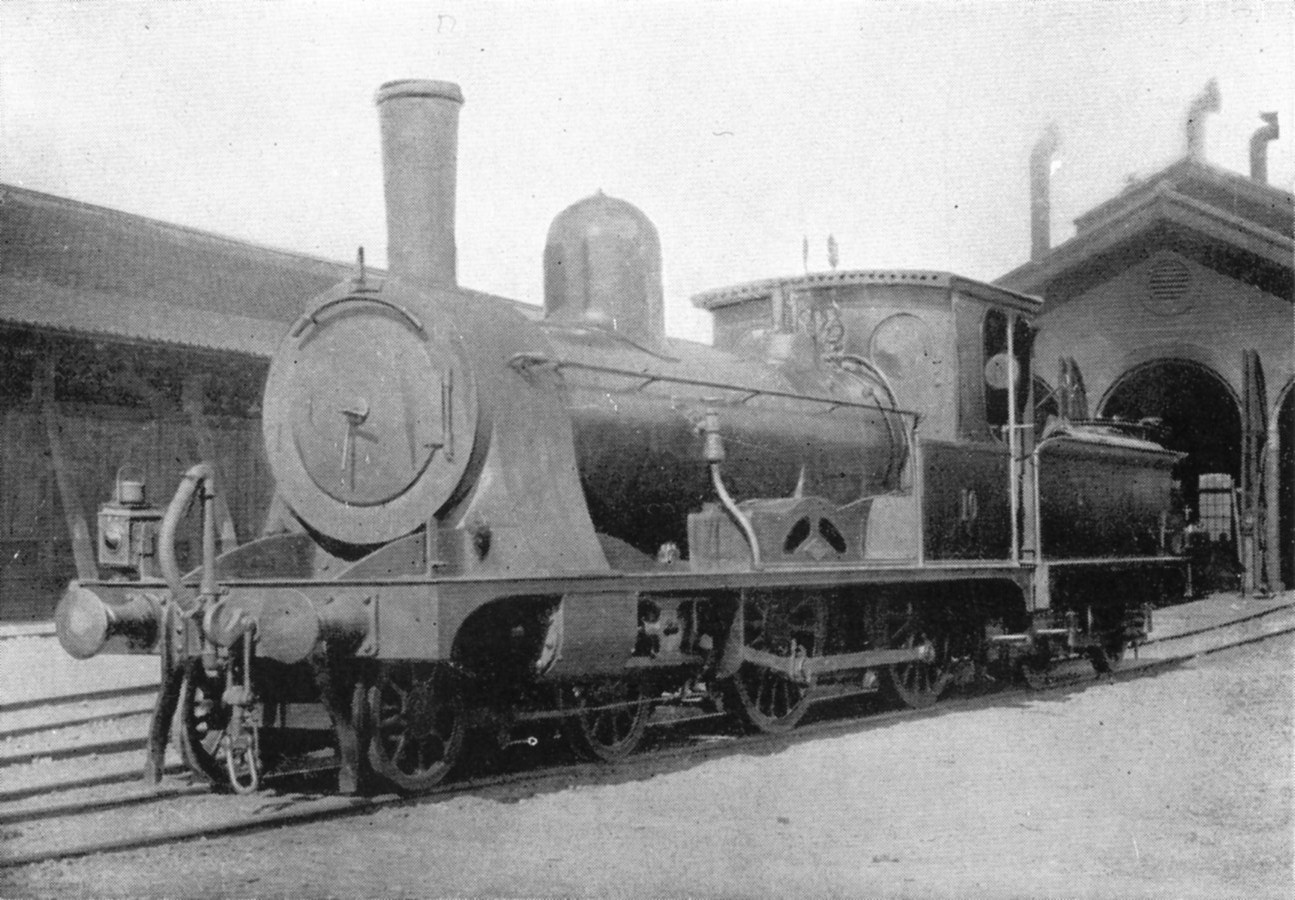 Japan Government Railway type 5130 steam locomotive